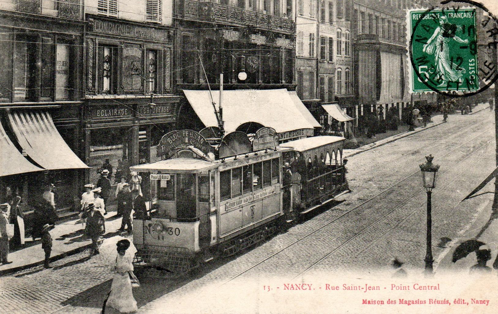 électric tram in Nancy (France), vintage postcard published by " Maison des magasins " in 1912